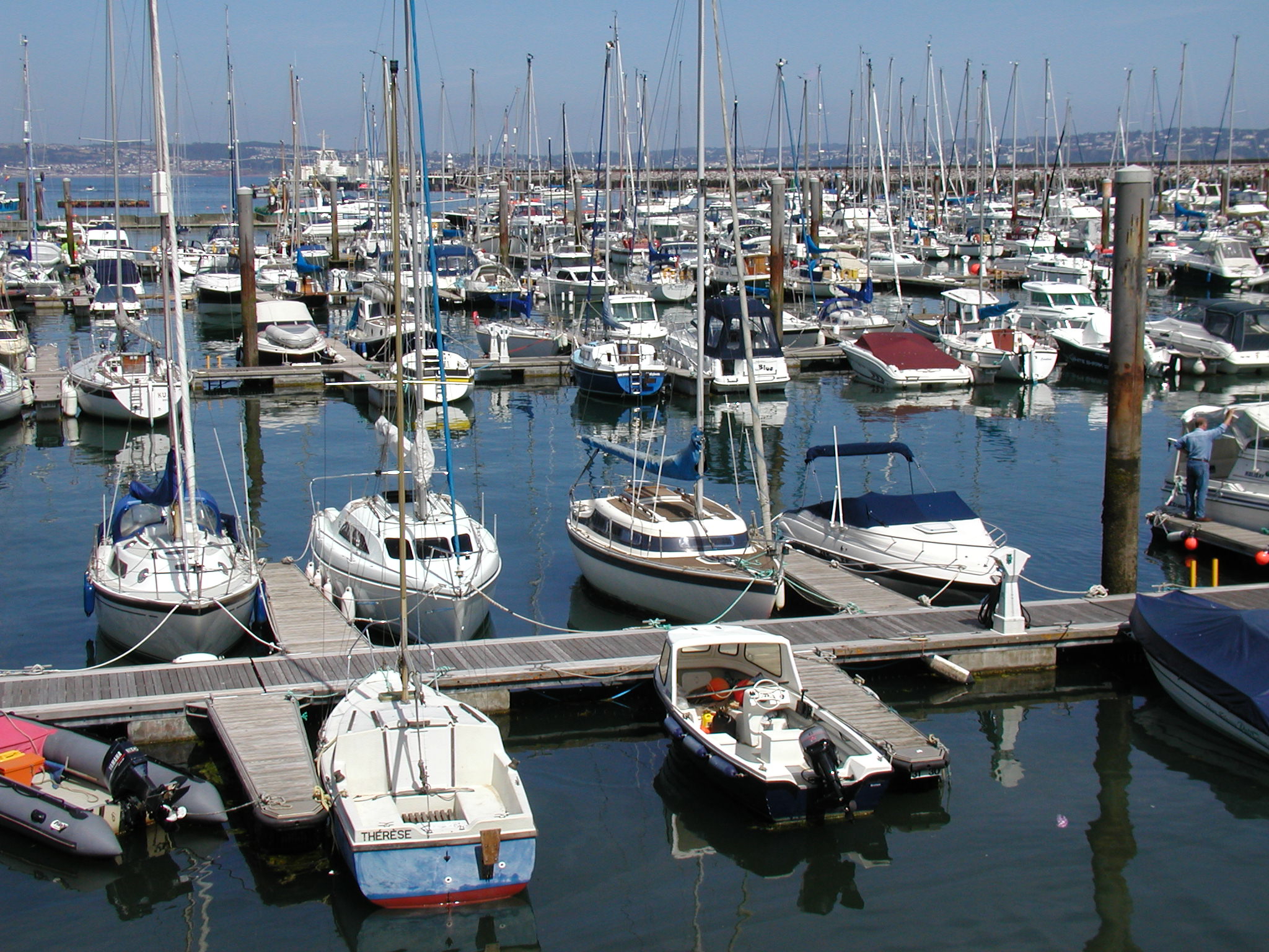 A marina in Brixham, Devon, England.